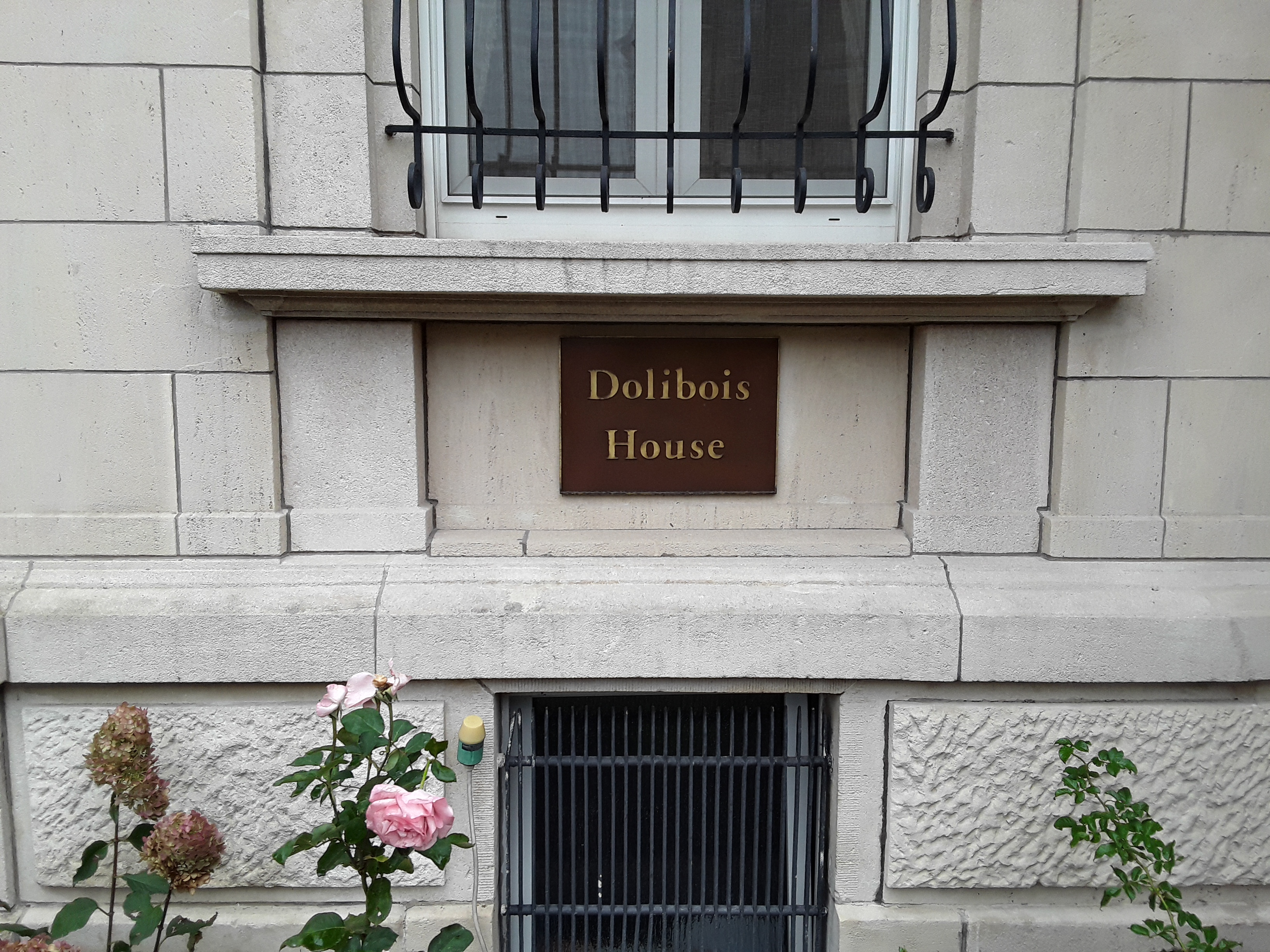 In October 2003, the U.S. Senate passed a resolution naming the American embassy residence in Luxembourg the Dolibois House, in the honour of John E. Dolibois.